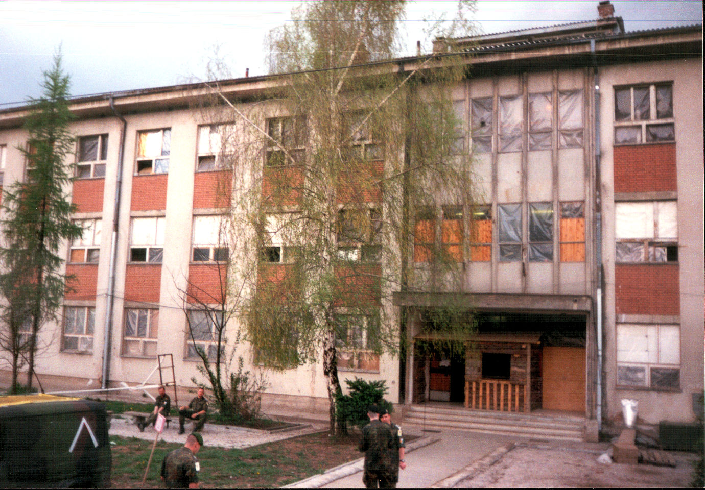 Headquarter of the German SFOR-Contingent in Camp Rajlovac near Sarajevo